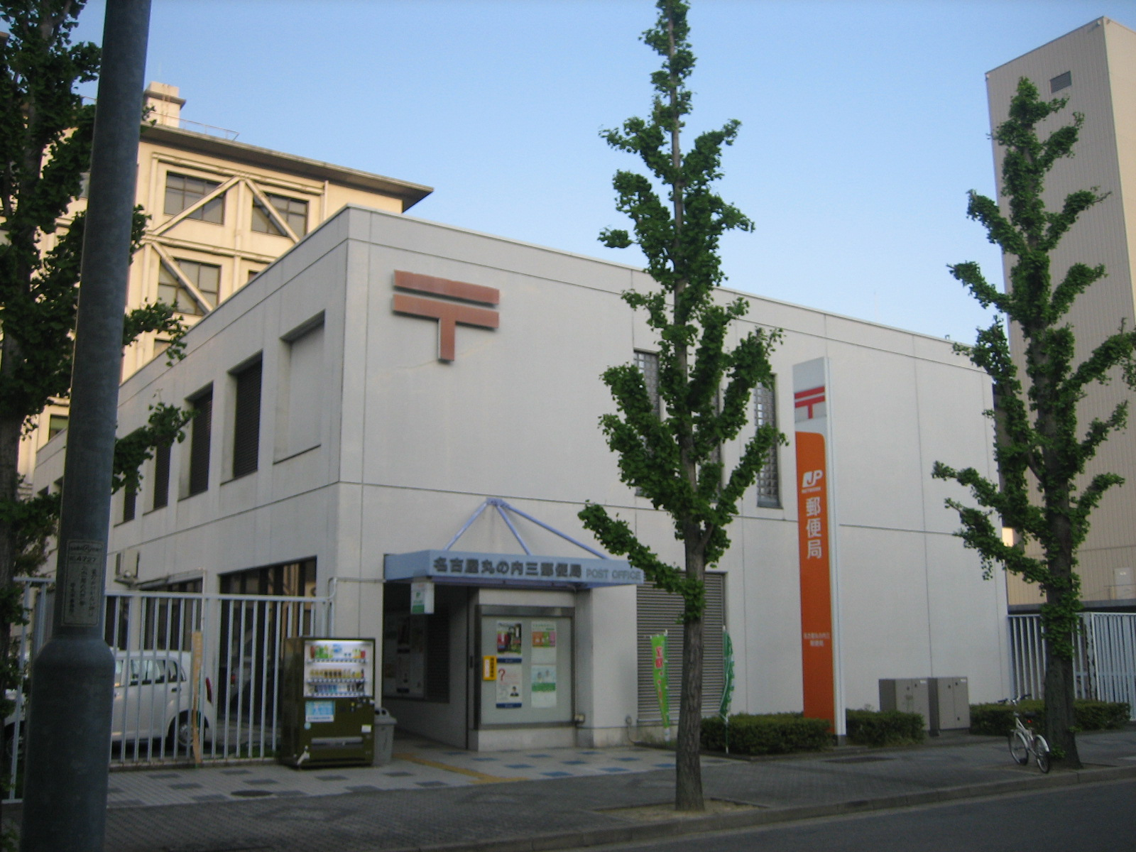 Nagoya-marunouchi-san post office in Aichi, Japan